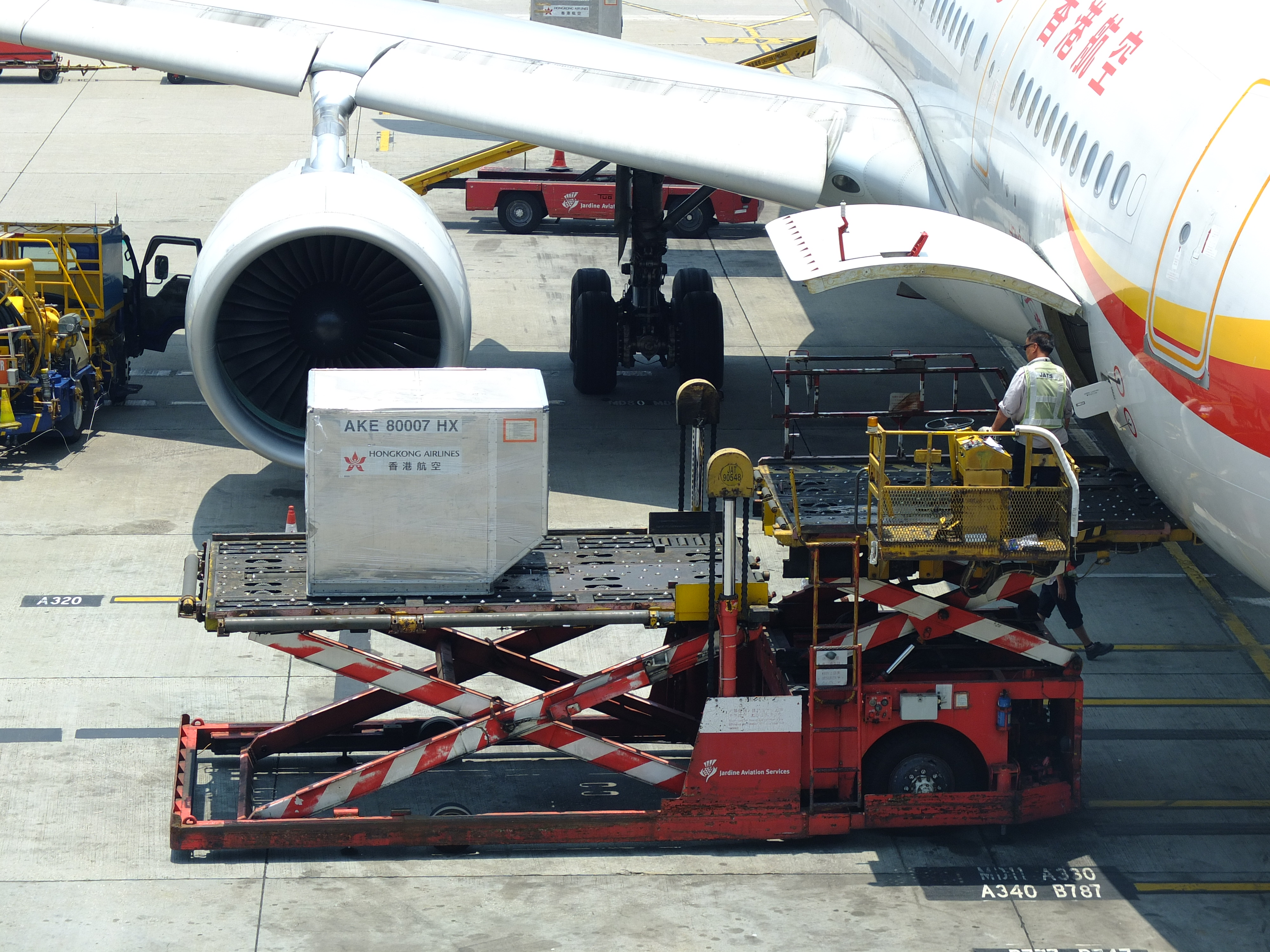 Photo showing a ULD loader lifting a ULD from apron dollies level to aircraft cargo bay level. Unit Load Device (ULD) is standardized size air cargo container. All are apron Ground support equipment.